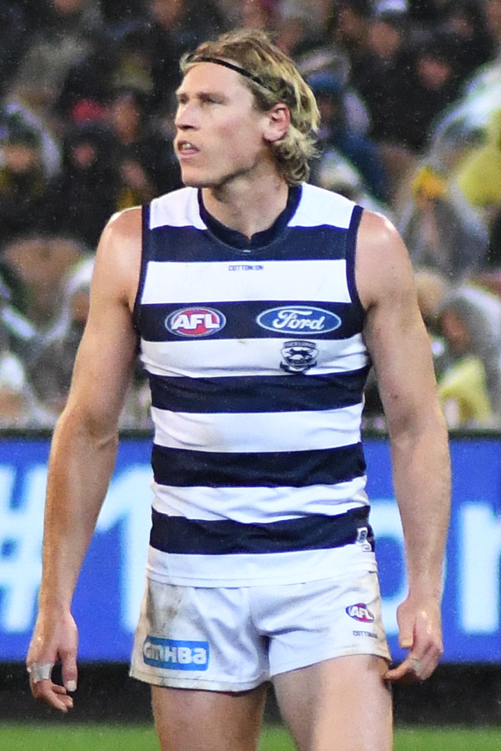 Mark Blicavs of Geelong during the 2018 AFL round 20 match between Richmond and Geelong at the Melbourne Cricket Ground on Friday, 3 August 2018 in Melbourne, Victoria.